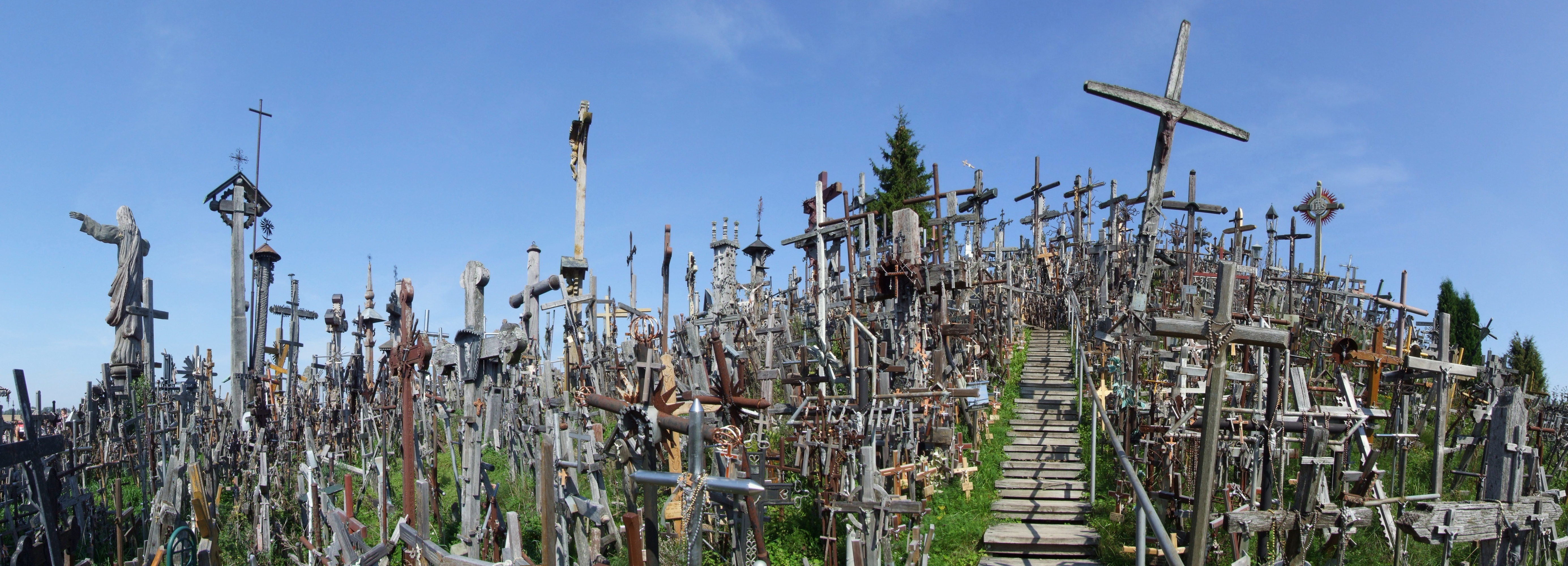 Hill of Crosses (Kryžių kalnas)